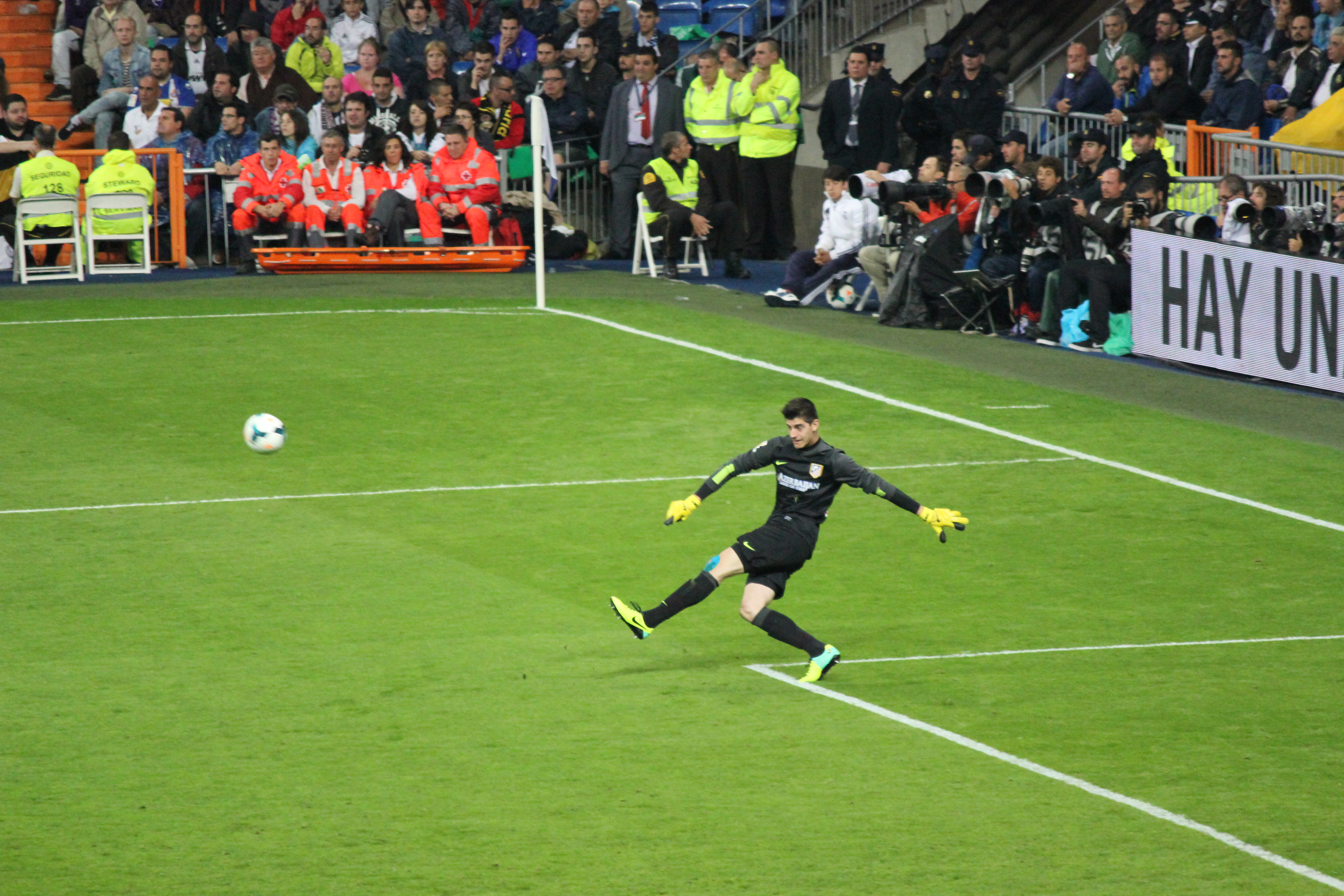 Real Madrid vs. Atlético Madrid 28 September 2013.